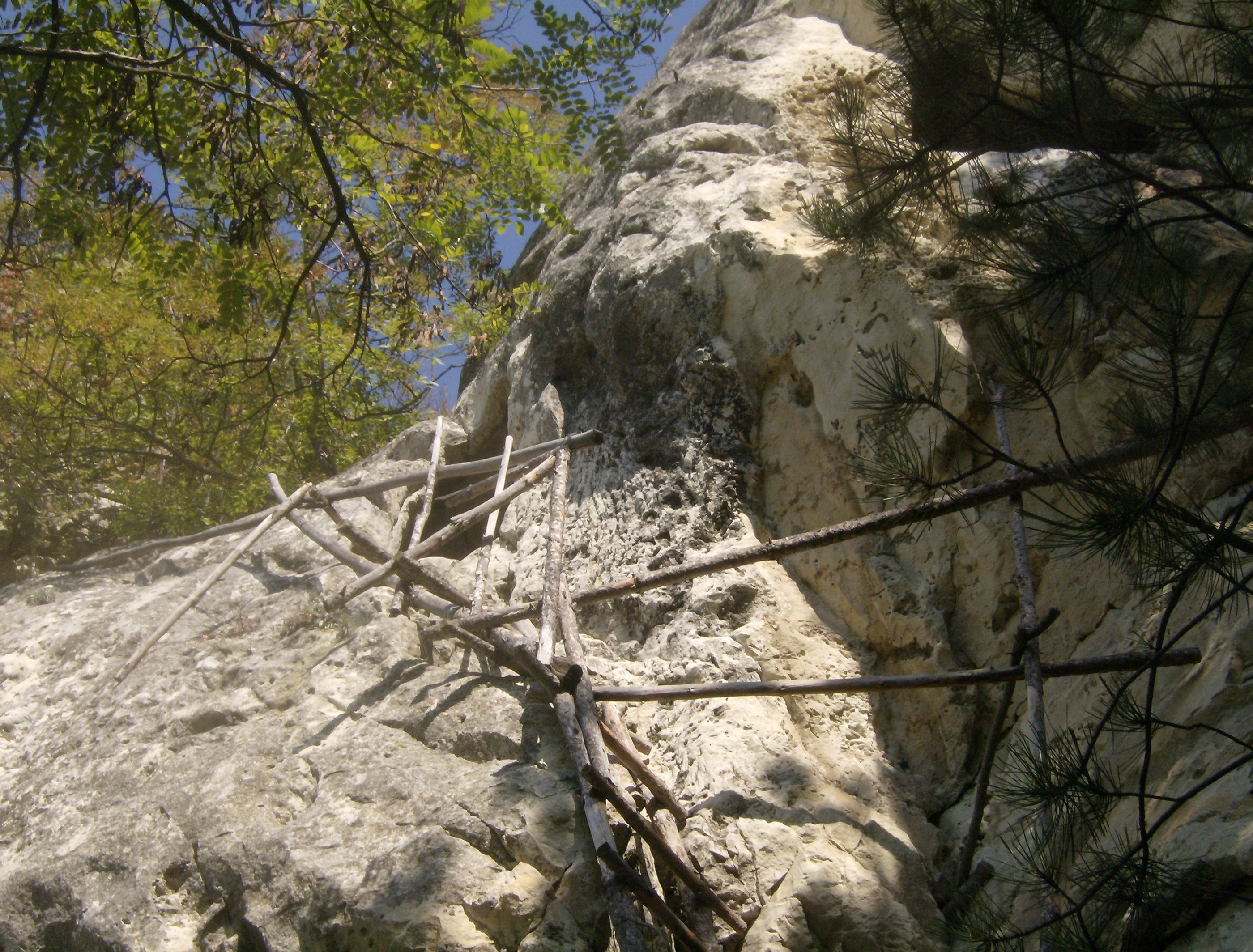 Rock-hewn Churches of Osmar